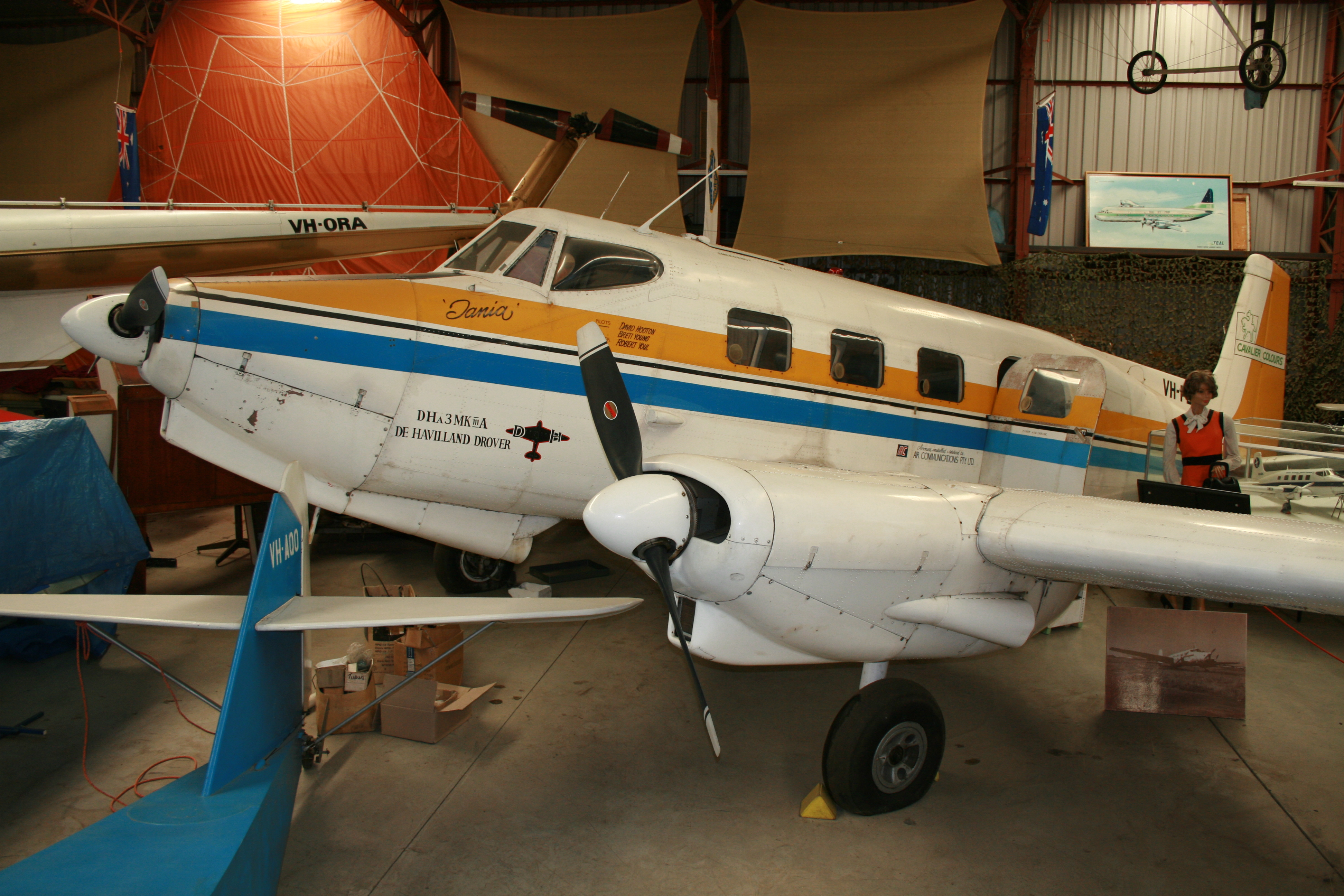 de Havilland Australia built 20 DHA-3 Drovers in the late 1940s-early 1950s. Seven of these were converted to Mk. 3s and two of these were further converted to Mk. 3a standard with a dihedral tailplane. This aircraft, formerly registered VH-FBC, is the one surviving Mk. 3a. It belongs to the Powerhouse Museum but is on loan to the Australian Aviation Museum at Bankstown Airport in Sydney where it is displayed in rather cramped conditions. Digital photo of Drover "VH-FBC" taken by YSSYguy at Bankstown on August 8 2007 for use in articles about de Havilland Australia and the DHA-3 Drover.